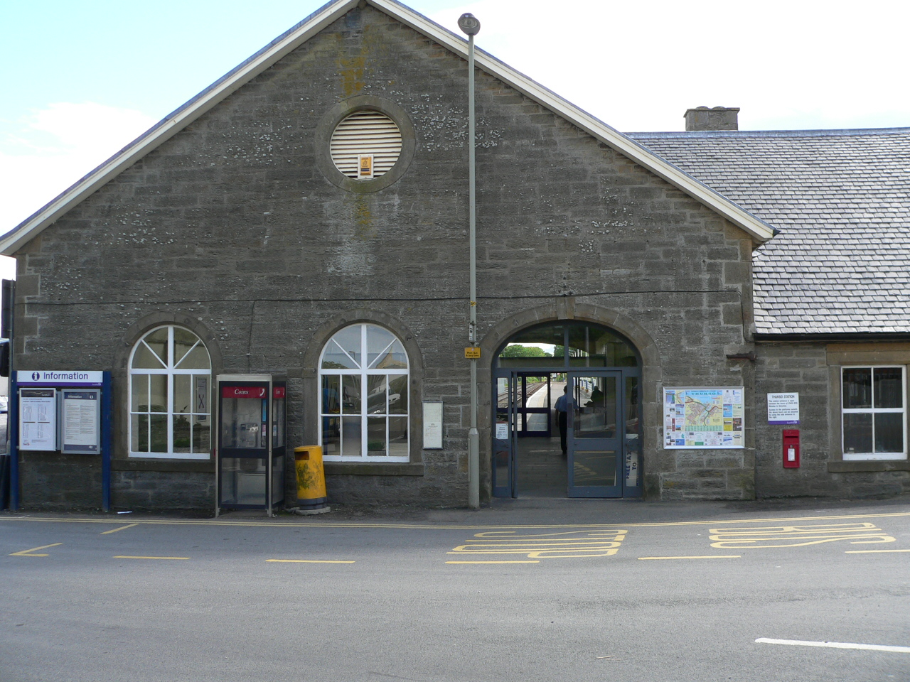 The exterior of Thurso railway station - the most northerly station on the British rail network.